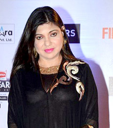 Singer Alka Yagnik at the 61st Filmfare Awards